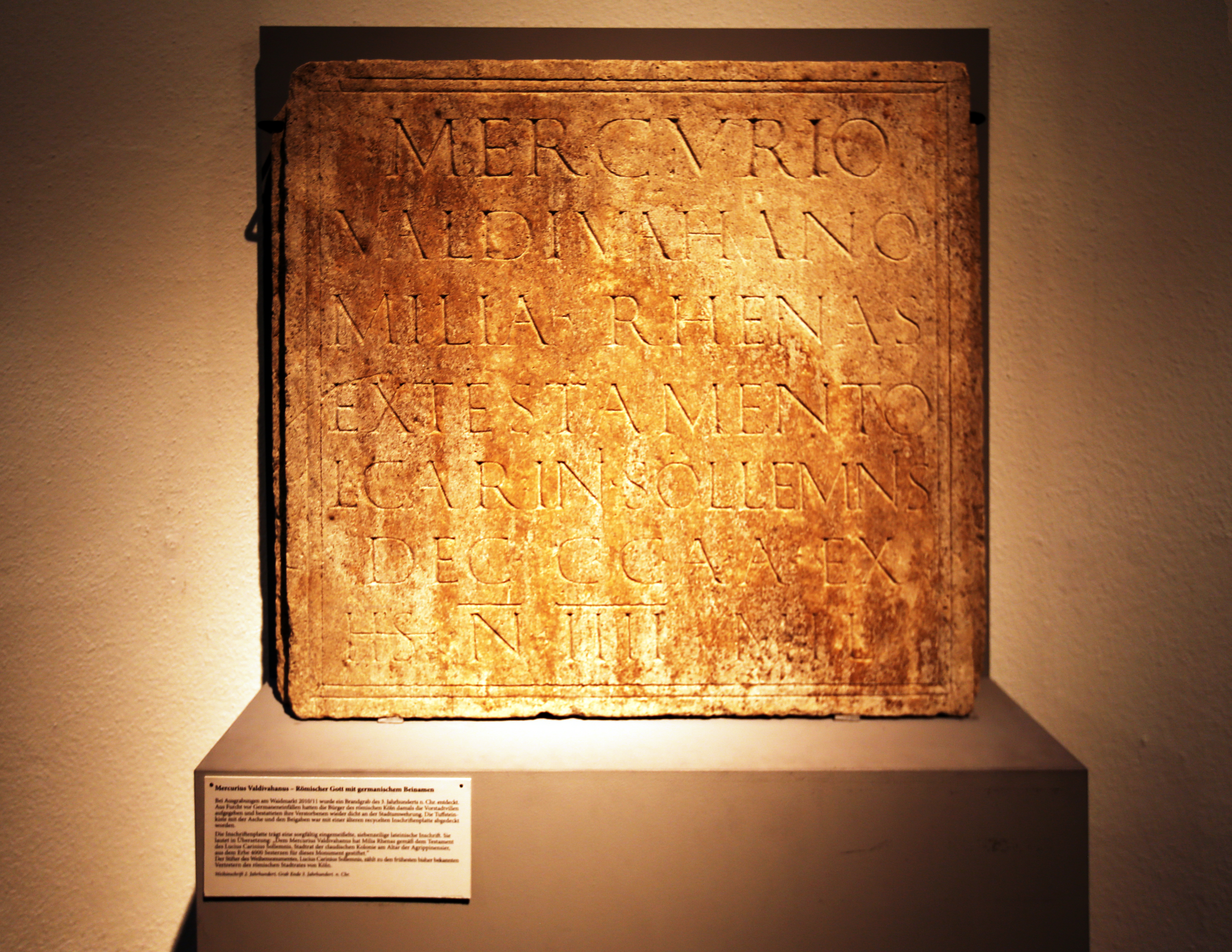 Label as a Gallo-Roman votive offering in Cologne